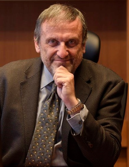 Person Jiří Majstr